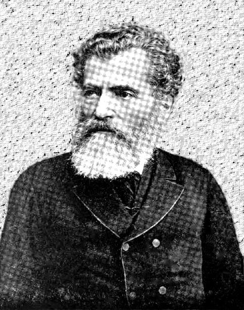 Picture of Honduran President, Ponciano Leiva